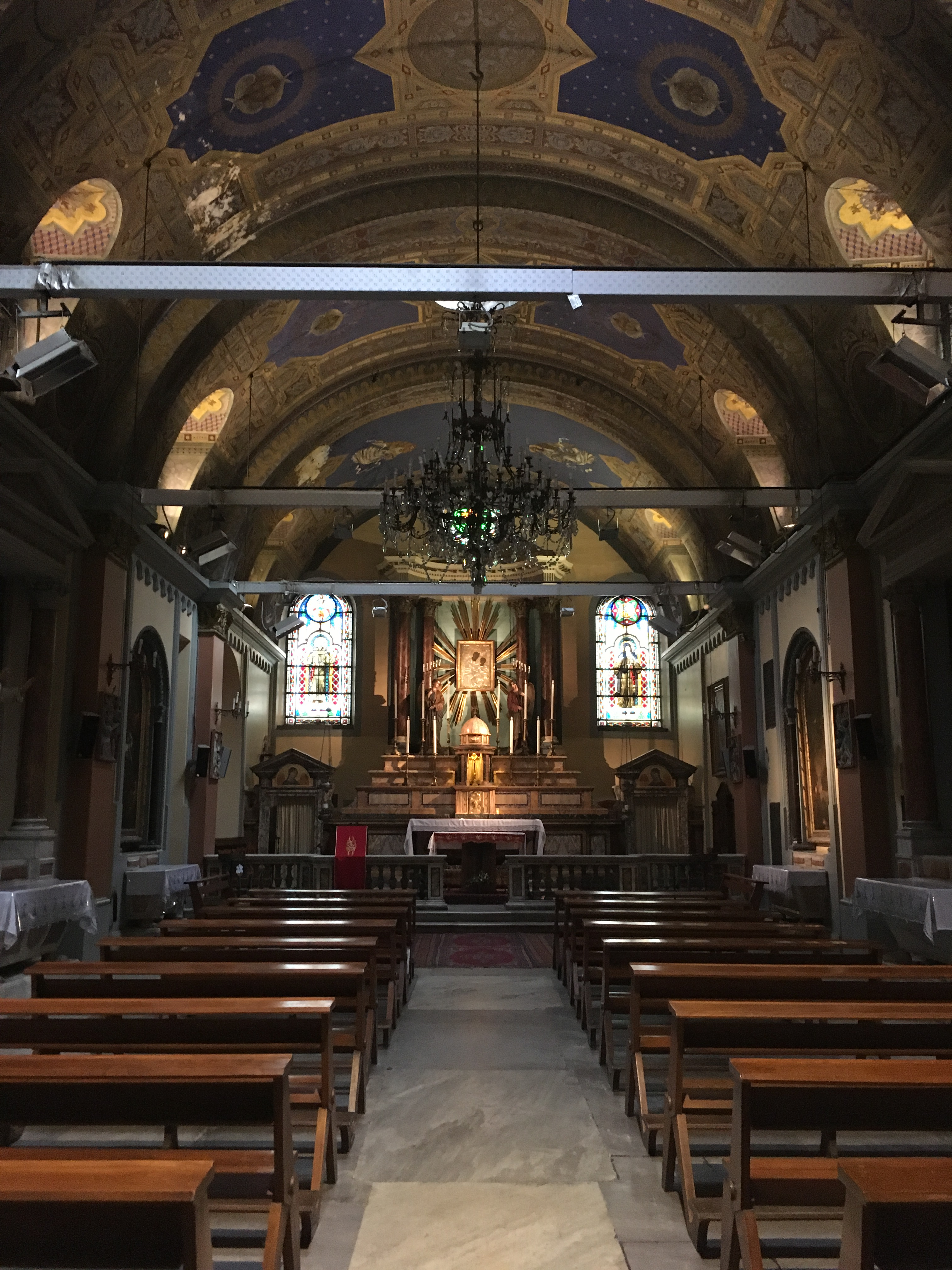 Istanbul, Turkey